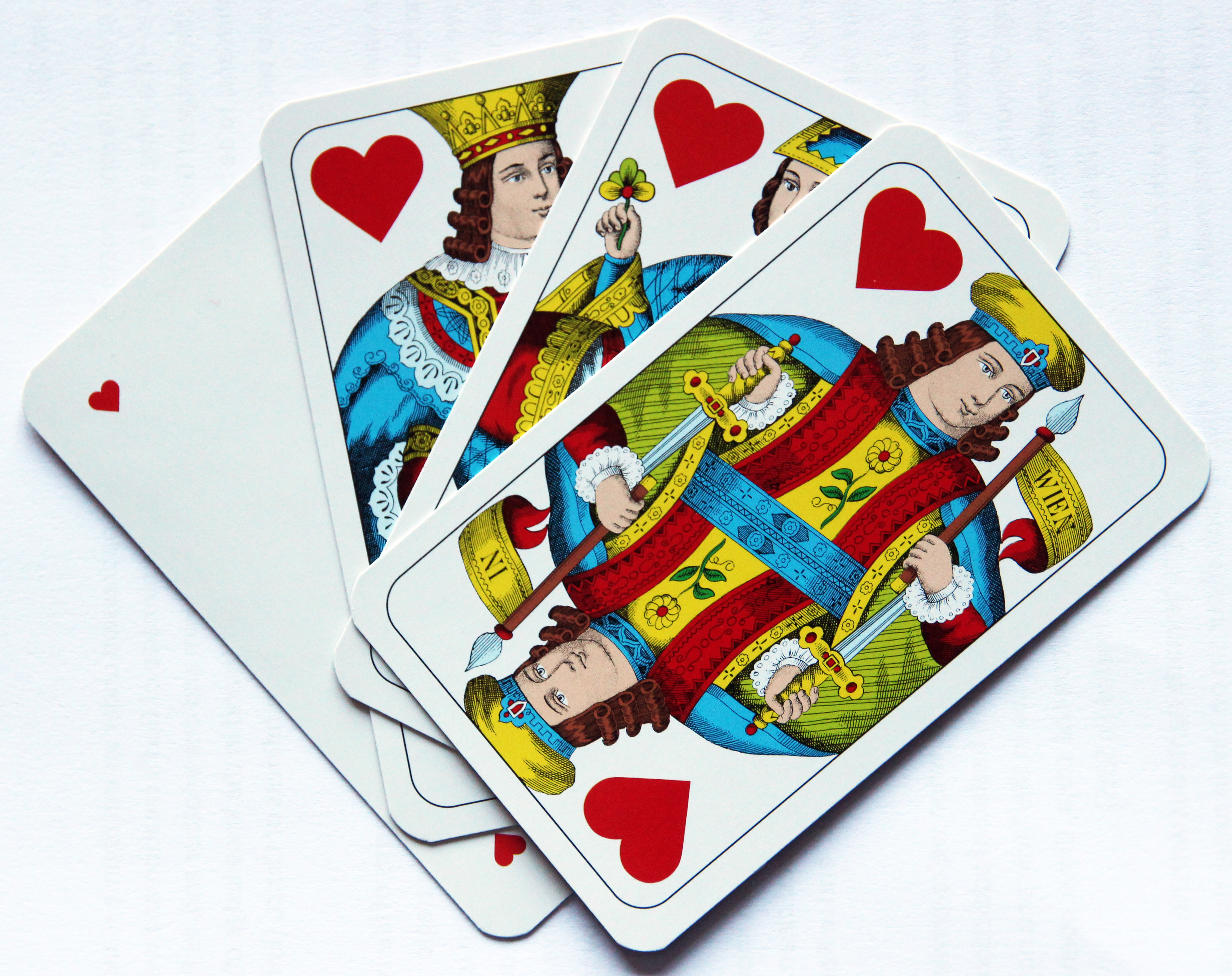 The highest ranking Heart cards (Ace to Jack) in a French-suited Preference pack